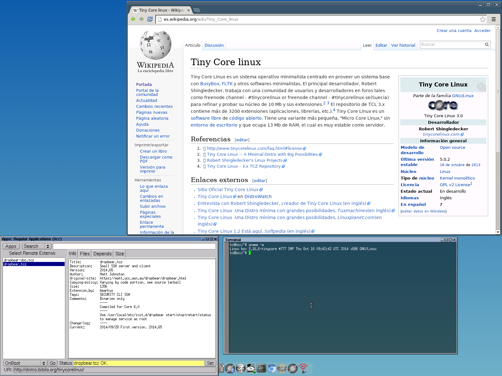 Captura de Chromium, apps y aterm en Tiny Core Linux 6.1, corriendo sobre VMware Workstation.